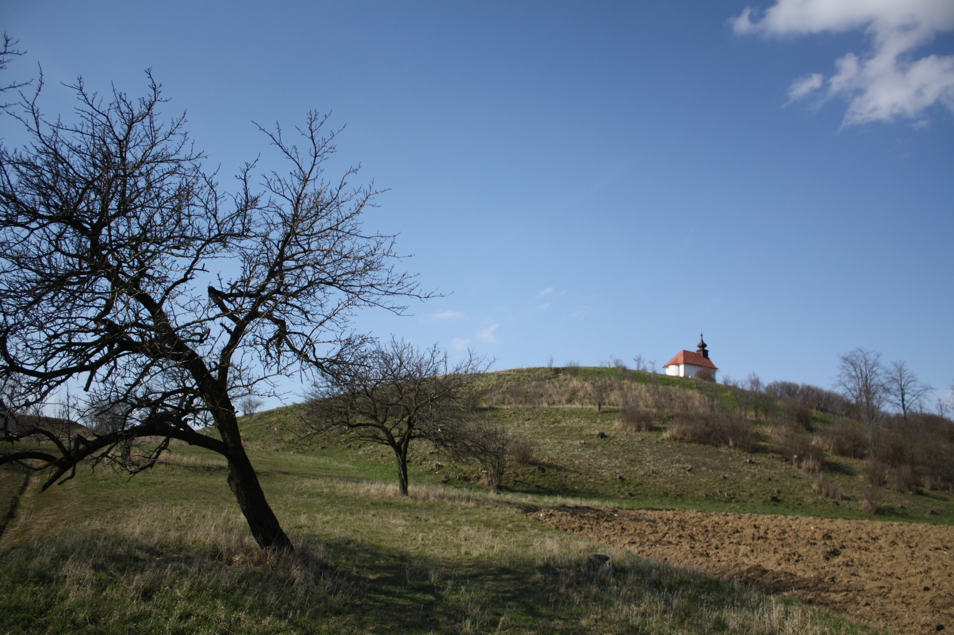 Santon hill, Brno-Country District, Czech Republic